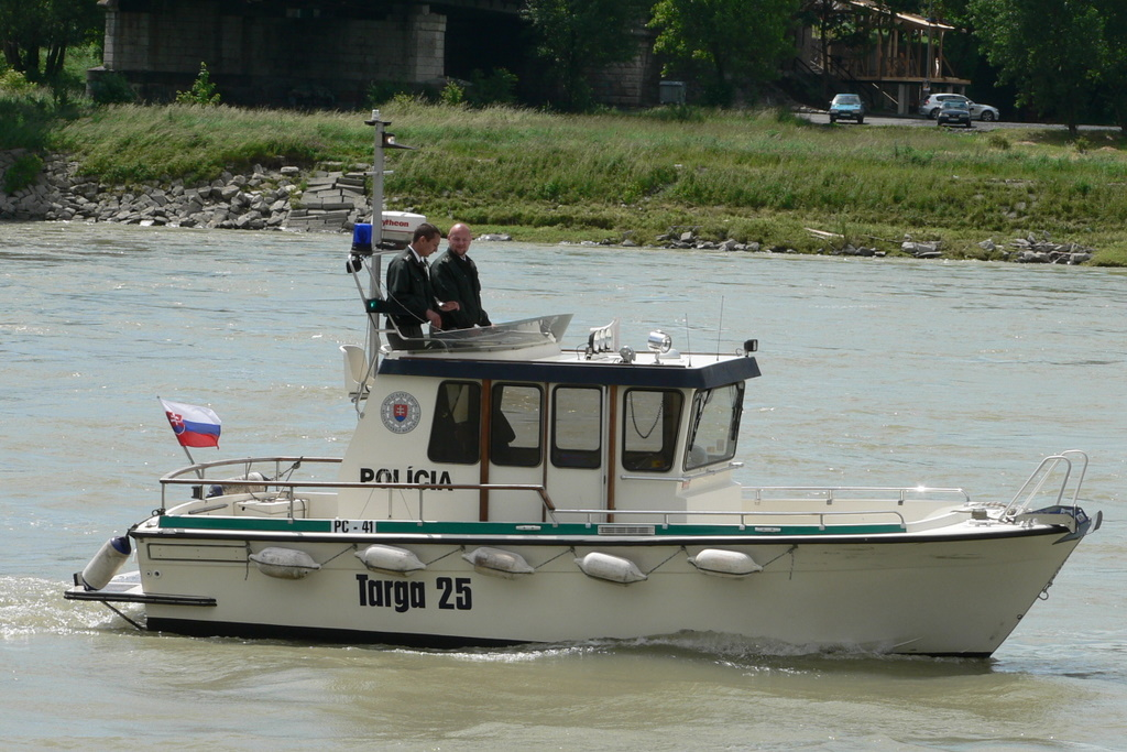 River police patrol at the River of Danube